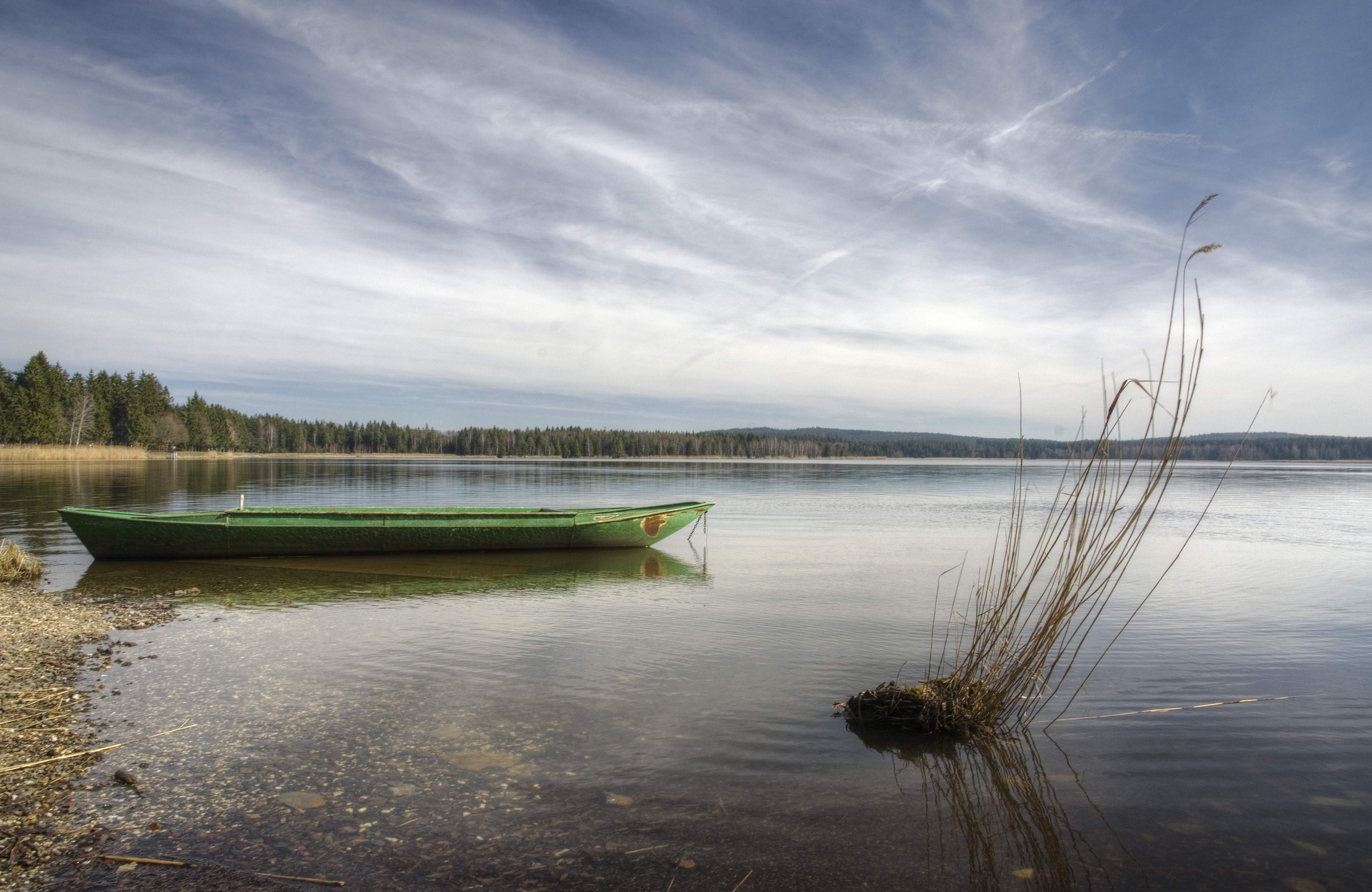 Pond Padrt